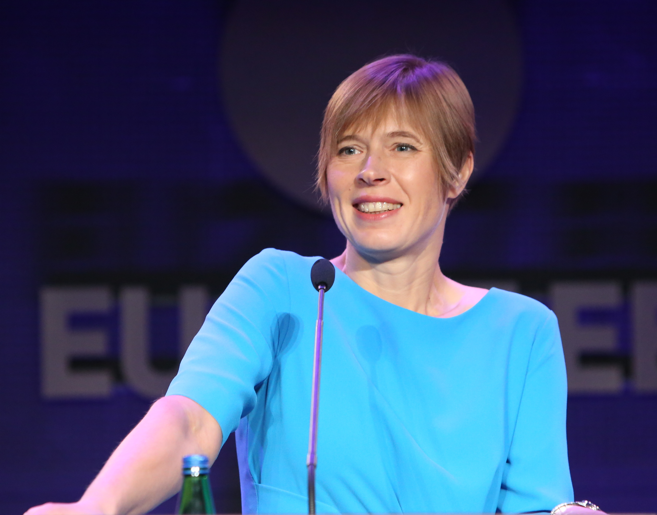 Kersti Kaljulaid